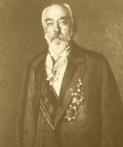 Image of Félix Baron de Blochausen (1834 - 1915), Prime Minister of Luxembourg from 1874 till 1885